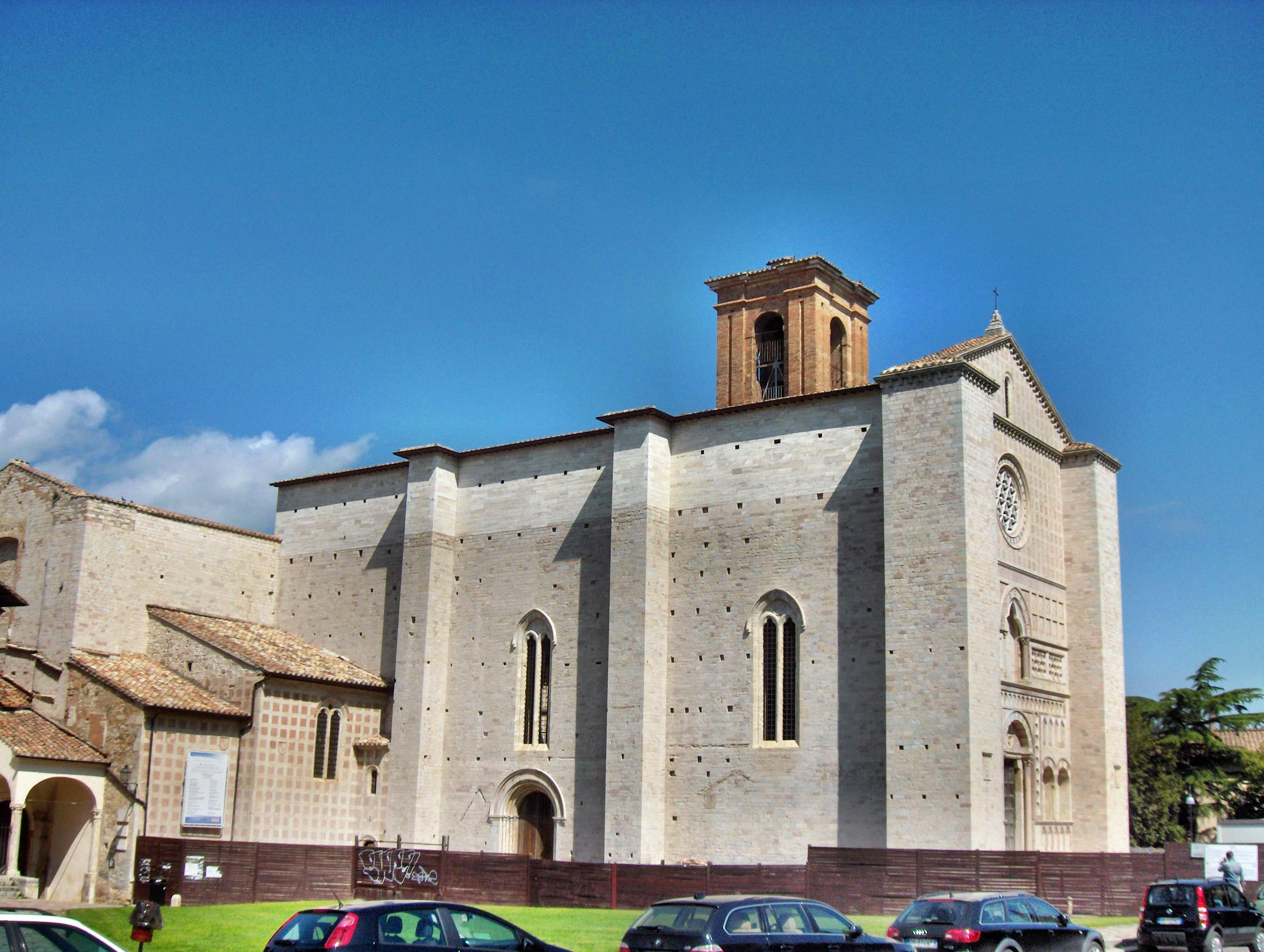 Church of San Francesco, Perugia, Italy